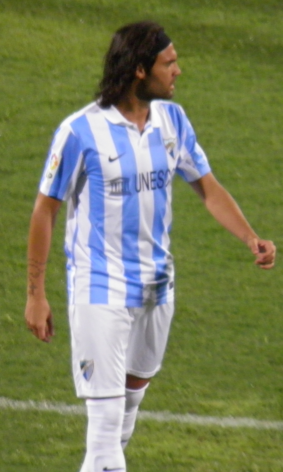 Sergio Sánchez Ortega during the friendly match Juventus-Málaga played in Salerno